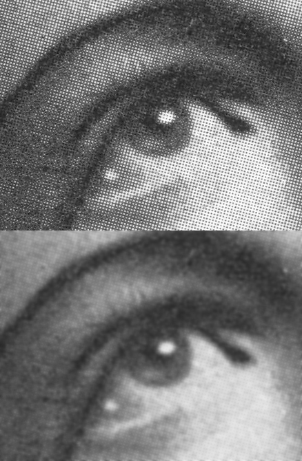 Halftone images can be smoothed digitaly by applying a Gaussian blur filter. Original image taken from an interbellic newspaper.